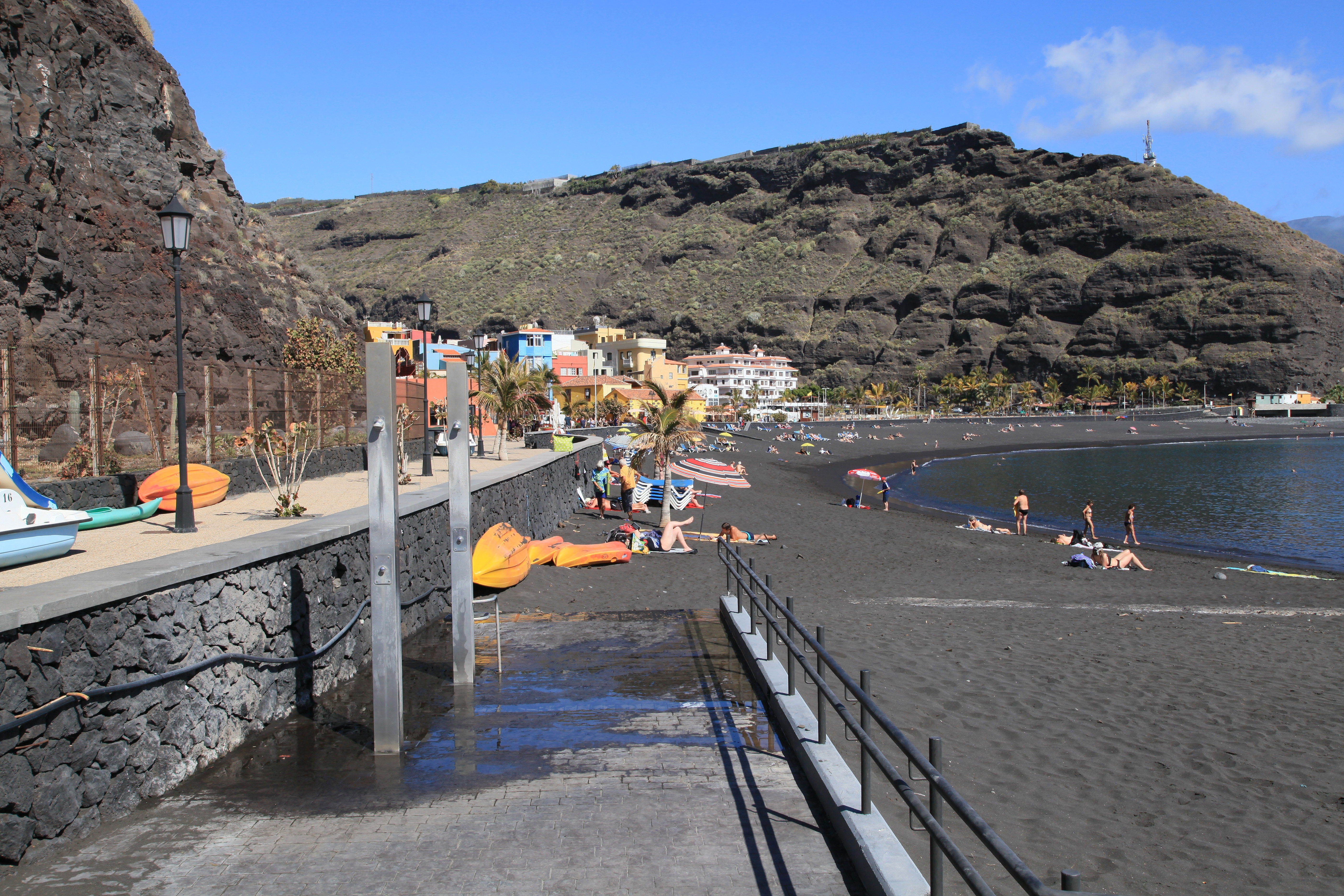 Playa de El Puerto at Avenida El Emigrante in El Puerto, Tazacorte, La Palma, Canary Island, Spain